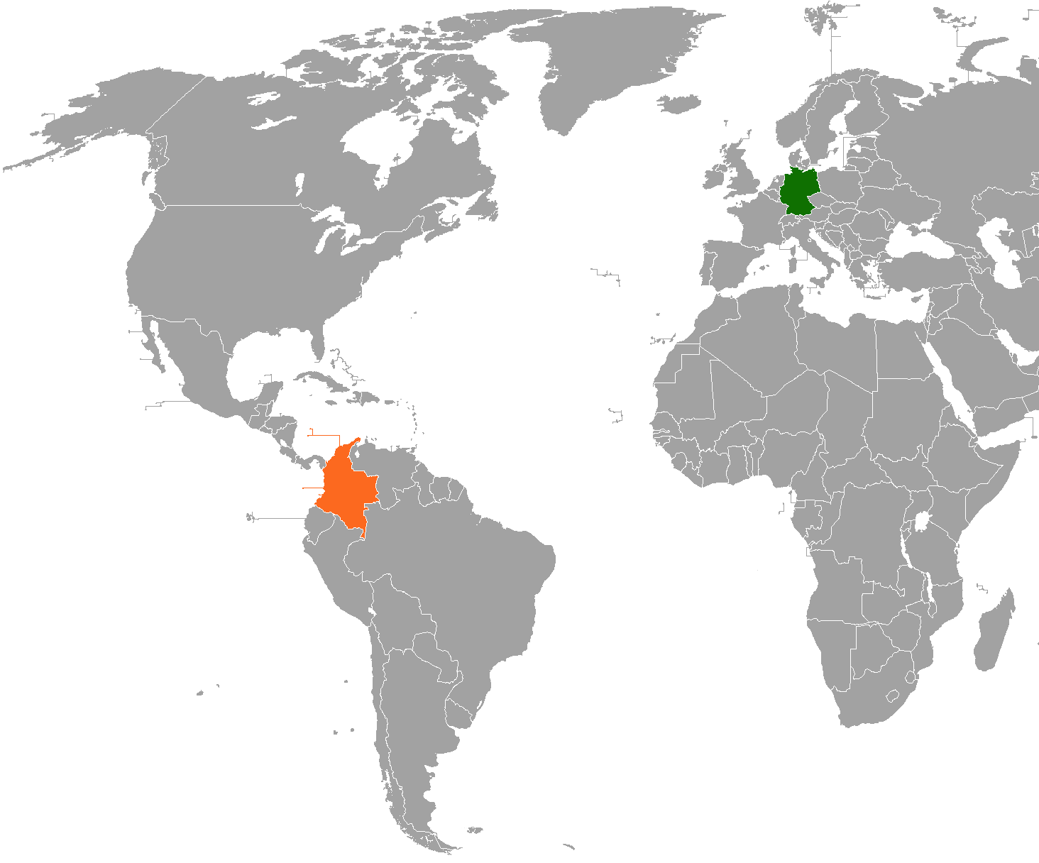 Colombia-Germany locator map